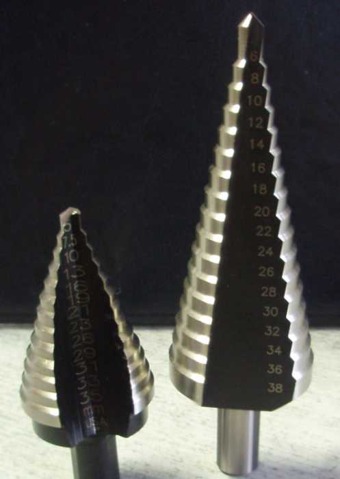 Irwin Unibit (left), Narex step bit